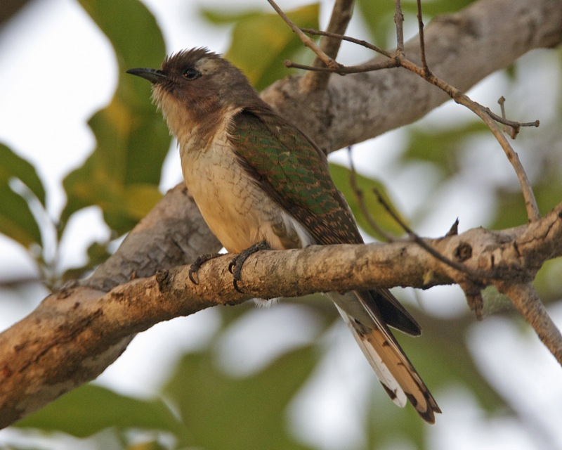 A female Klaas's Cuckoo in the Kwa Madwala Game Reserve, Mpumalanga, South Africa, on 10th. October 2009 Range map: [1]